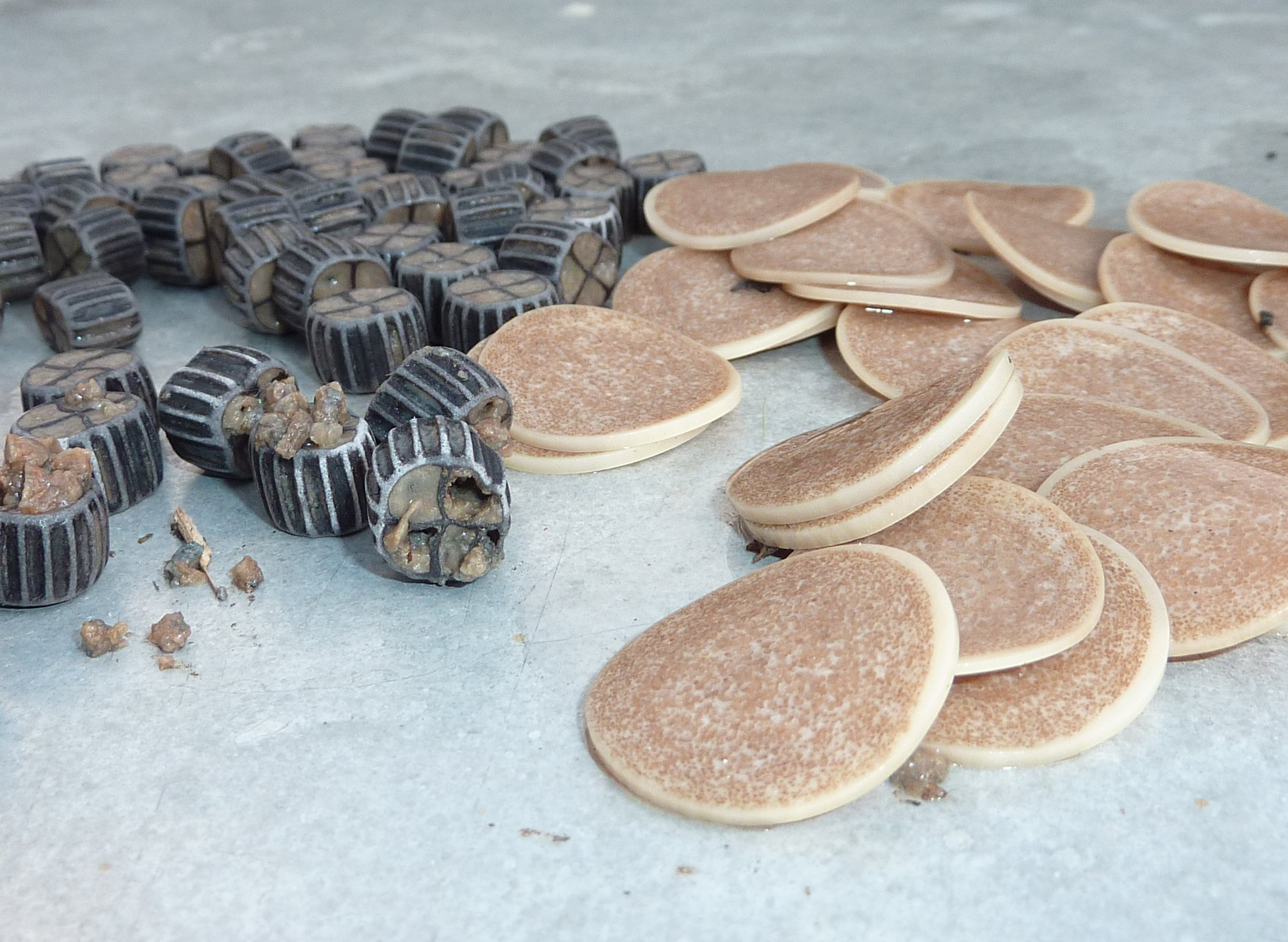 Colonized biofilm carriers (K1 and Mutag BioChip™) for wastewater treatment